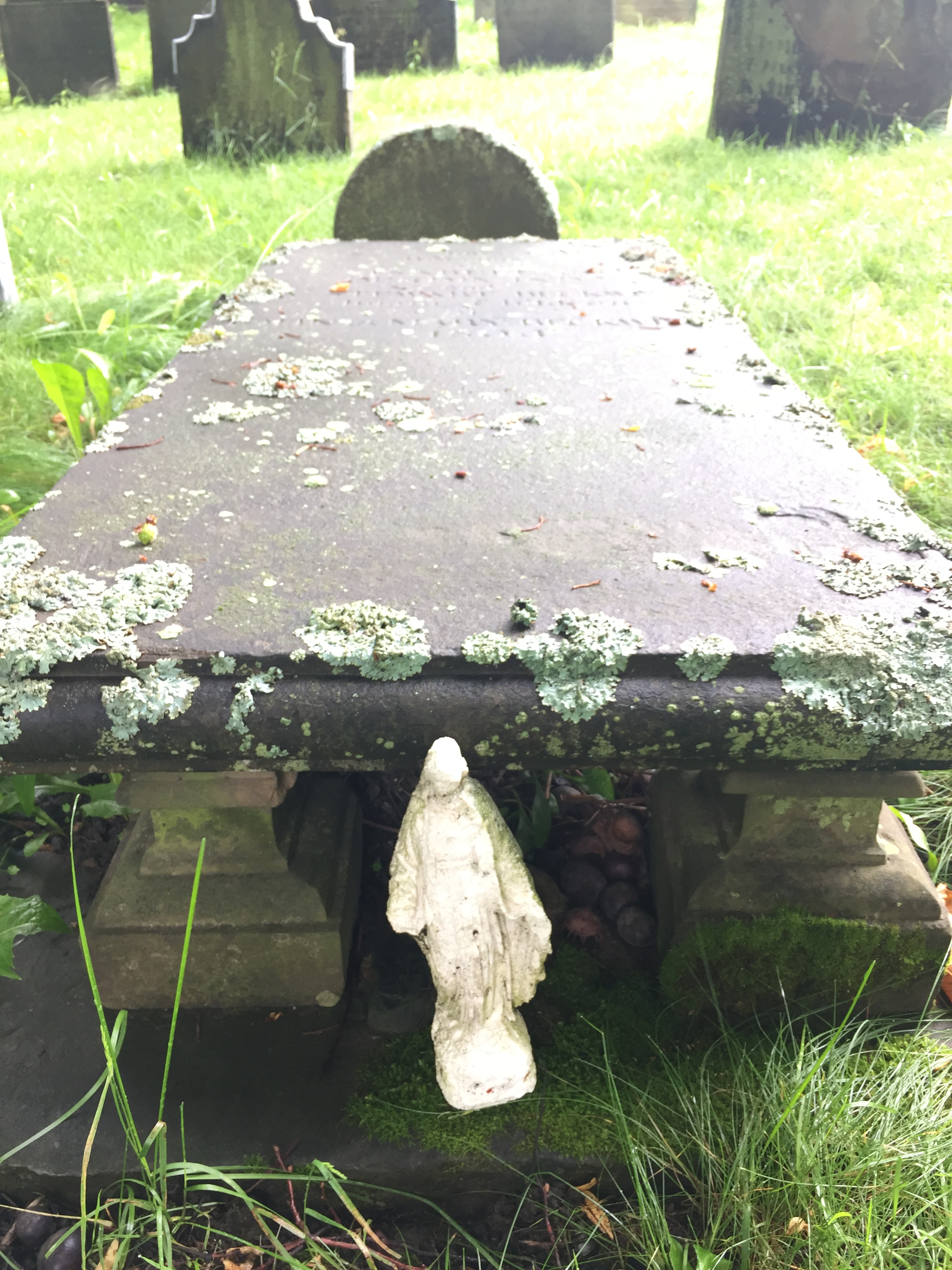 John Charles Beckwith's sibilings, Old Burying Ground, Halifax, Nova Scotia